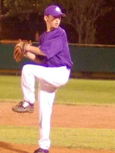 John Walls pitching opening day for the pony "West Covina Phantoms" in 2008 at age 14.